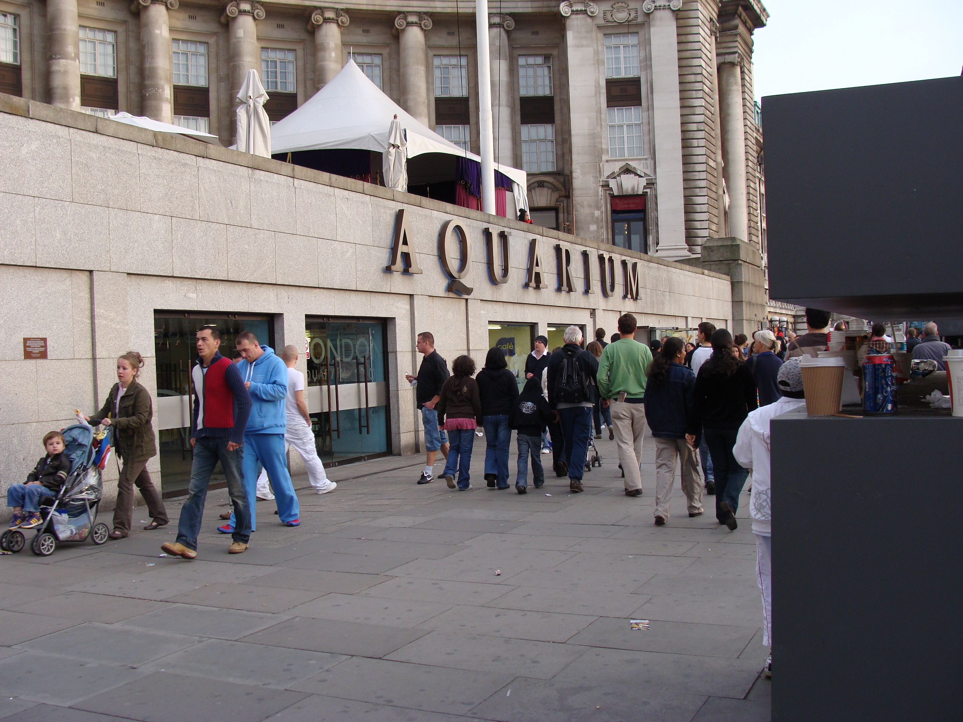 London Aquarium, in (London)